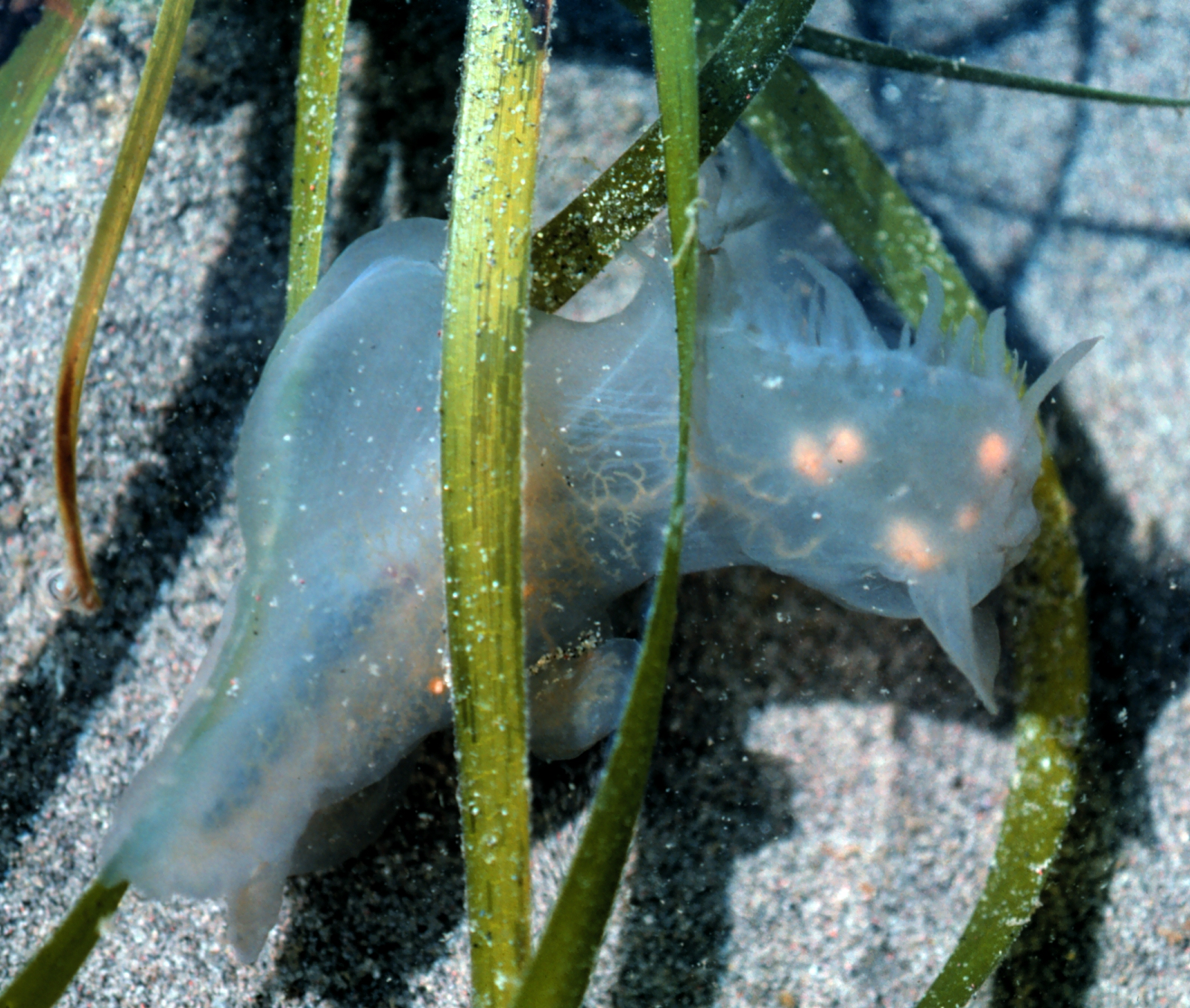 The Hooded Nudibranch, Melibe leonina, is also called the Lion Nudibranch. This mollusk is almost transparent with a slight yellowish-green cast. Unlike other nudibranchs, Melibe have no radula and M. Leonina has no jaws. It uses its oral hood, lined with 2 rows of tentacles to capture prey. Found in offshore kelpbeds and eelgrass meadows. Image ID: nerr0799, NOAA's Estuarine Research Reserve Collection Location: North Puget Sound, Anacortes, Washington